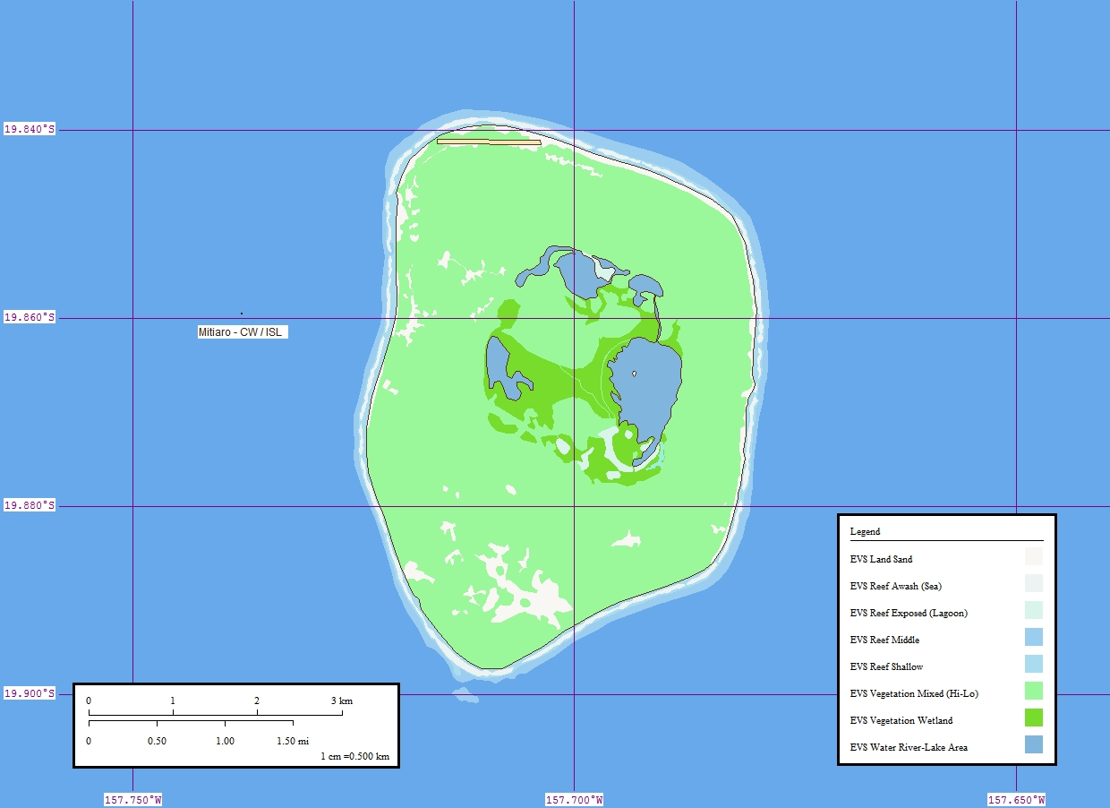 Map of Mitiaro Island, Cook Islands